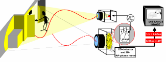 Time of flight recording.